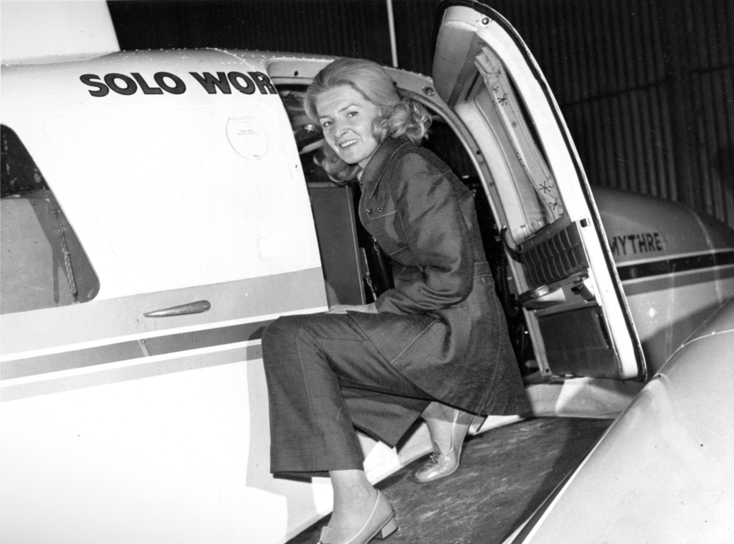 Sheila Scott, born on April 27, 1927 in London, England, served as governor of the British section of the Ninety-Nines, an international association of licensed women pilots. The Ninety-Nines originated as an association of American women pilots who first gathered on November 2, 1929 at Curtiss Field, Valley Stream, Long Island, New York. All 117 registered female pilots in America at the time were invited, out of which twenty-six attended the first meeting and 99 became charter members dedicated to mutual support and the advancement of aviation. Under the leadership of Amelia Earhart, the first president, and the women who followed her, the organization grew and gainedinternational recognition. Sheila Scott is pictured here with her Piper Aztec "Mythre," in which she made her world and a half flight in 1971. On this flight, she became the first person to fly over the North Pole in a single engine plane. She carried special NASA equipment for a communications experiment testing the Interrogation Recording and Location System (IRLS) of the Nimbus polar orbiting satellite. The IRLS equipment, a Balloon Interrogation package, transmitted data on Scott's location during the 34,000-mile around the world flight to the Nimbus satellite, which relayed it to NASA's ground station at Fairbanks, Alaska and then to a computer center in Greenbelt, Maryland. Sheila Scott's record-making, historic flight confirmed the satellite's ability to collect location data from remote computerized and human-operated stations with a unique "mobile platform" location test. She died on October 20, 1988.